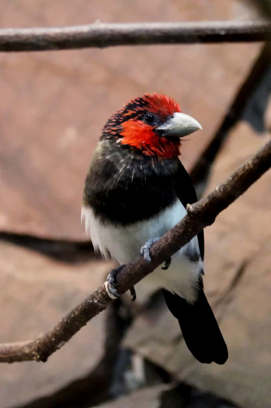 Brown-breasted barbet, Hamburg zoo